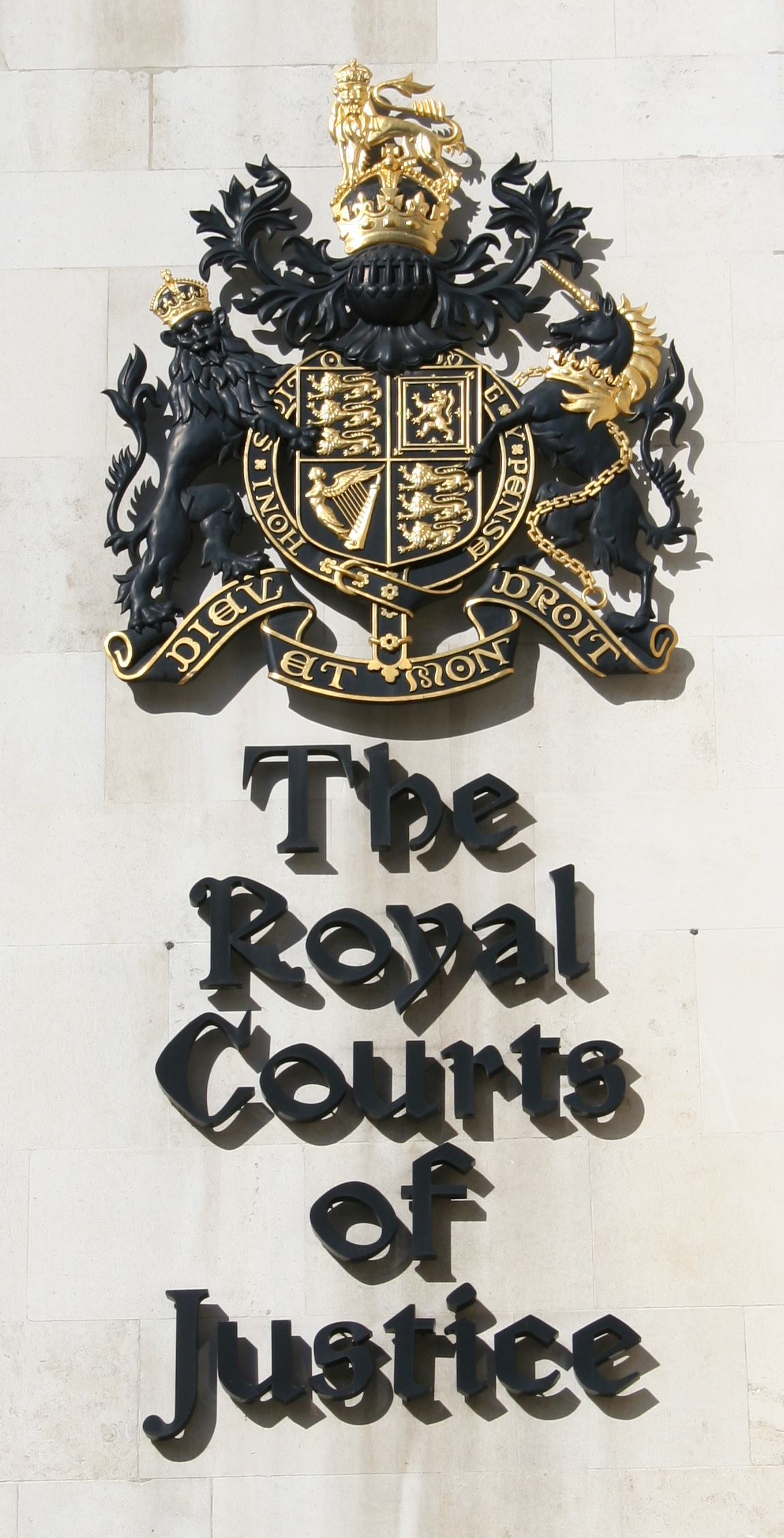 The Royal Courts of Justice Sign, London